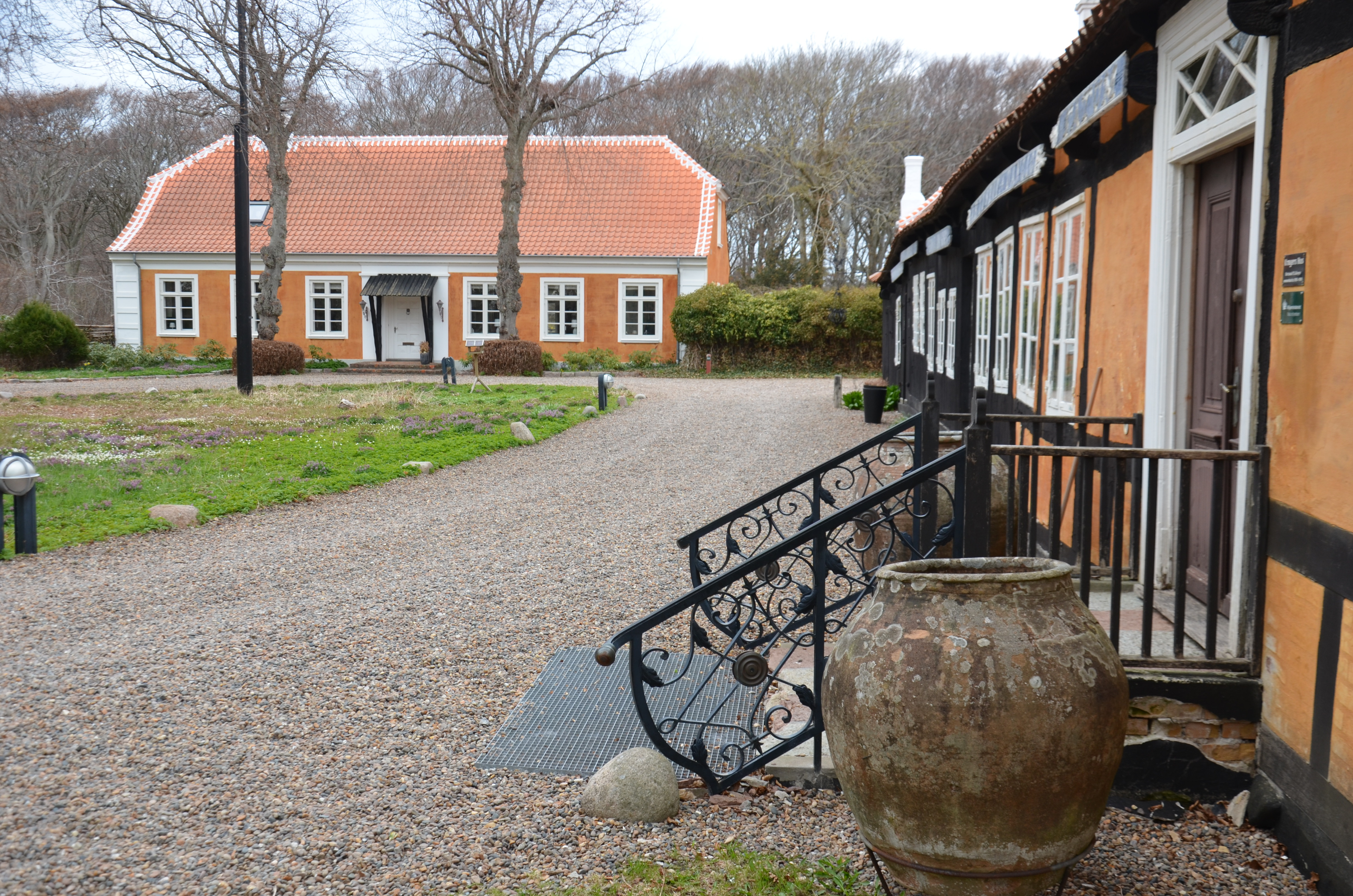 Byfogedgården i Skagen, med Kröyers Hus till höger